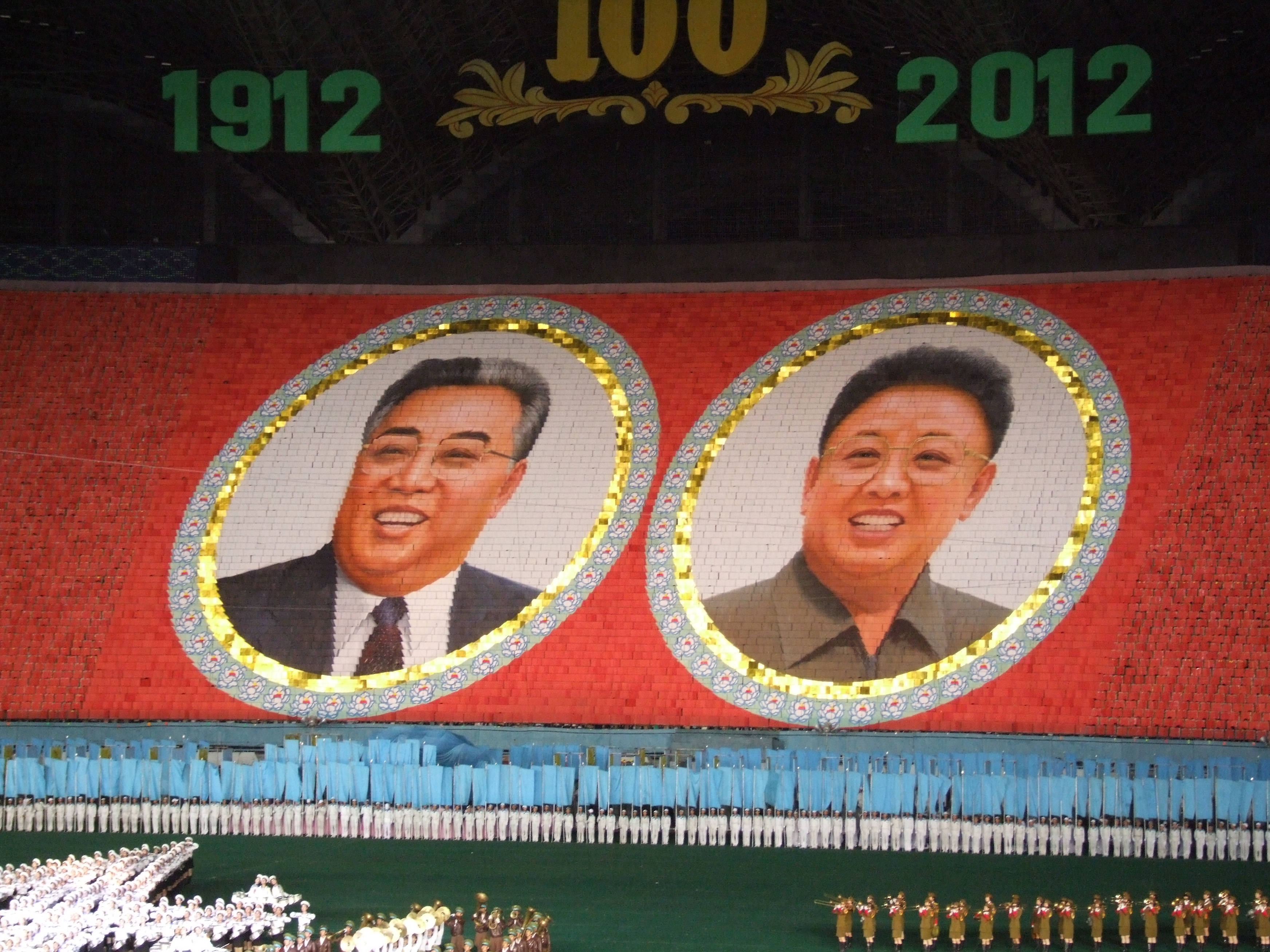 Arirang Mass Games